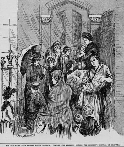 Sarah Maud Heckford and husband ran the East London Childen's Hospital. Here is a graphic that Charles Dickens wrote about